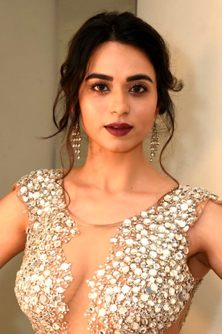 Soundarya Sharma attends the 63rd Jio Filmfare Awards 2018, January 21.